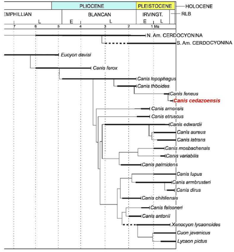 Image displays ancient canids